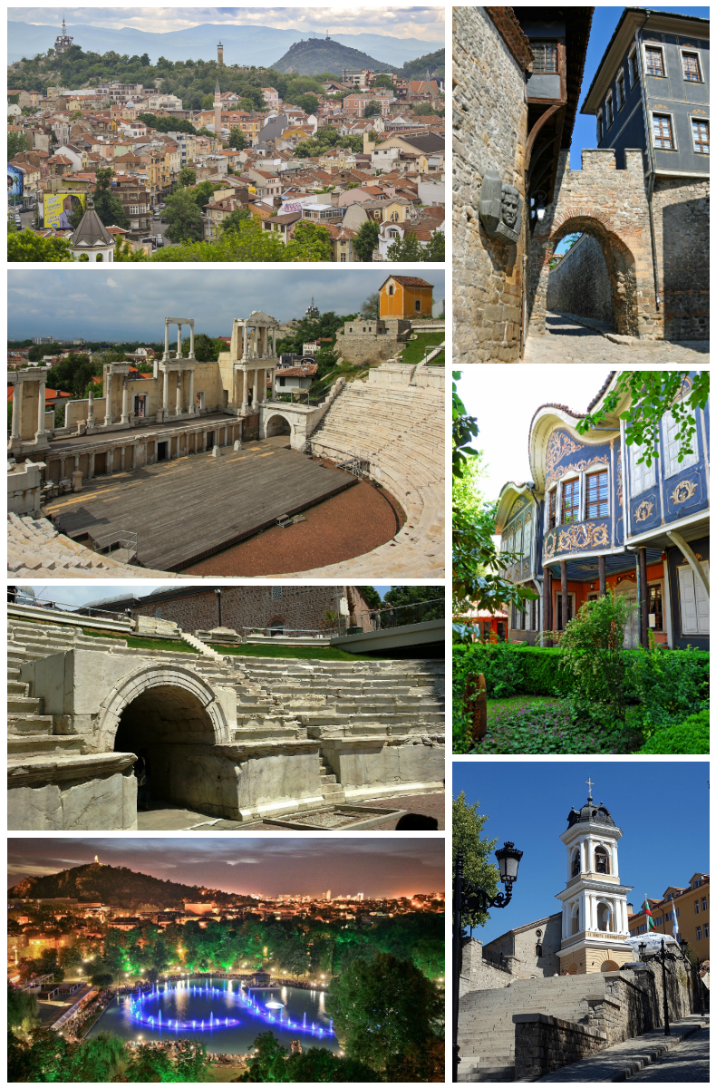 Famous places and buildings in Plovdiv